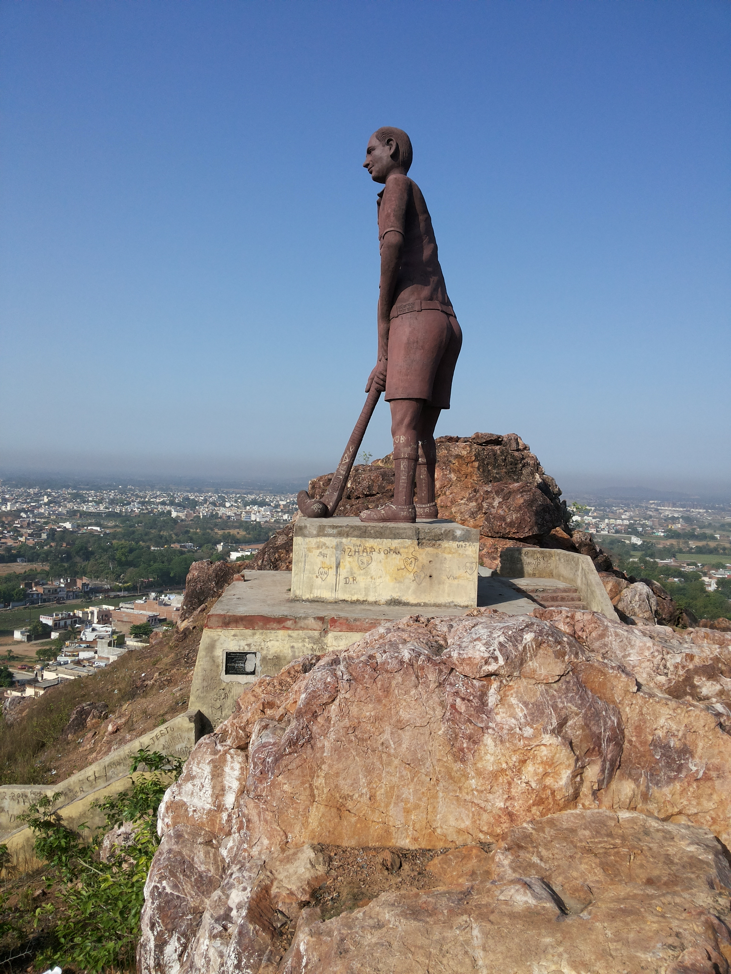 The statue situated at Jhansi city is of hockey legend of India, Dhyan Chand. Dhyan Chand is credited in winning gold medals in olympics. The statue was installed after initiation by then Minister of Rural Development of India, Pradeep Jain Aditya.